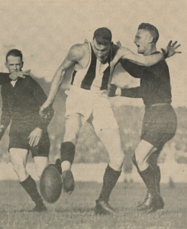 Photograph of Joe Poulter from